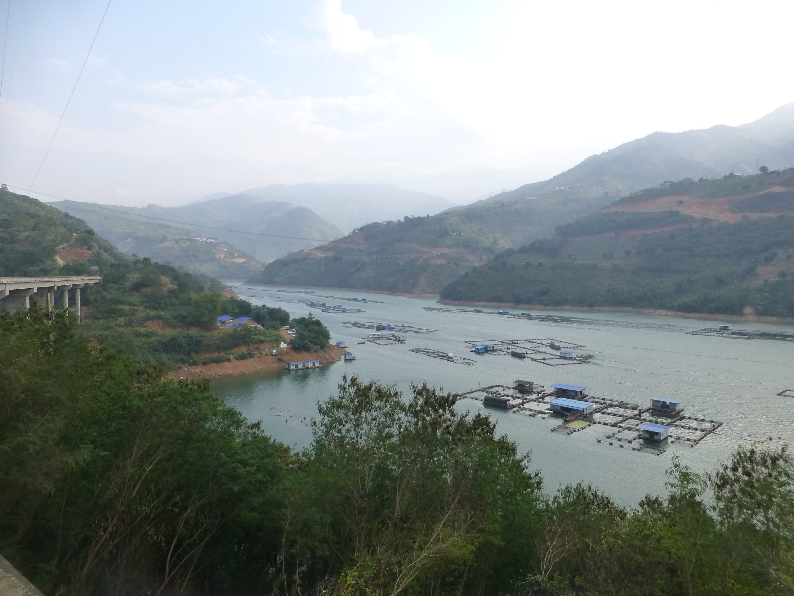 The Madushan Reservoir, seen from Hwy S212 between Huangcaoba Village and Madushan Dam. This side of the reservoir is in Manhao Town, Gejiu City; theopposite side, in Yuanyang County or Jinping County